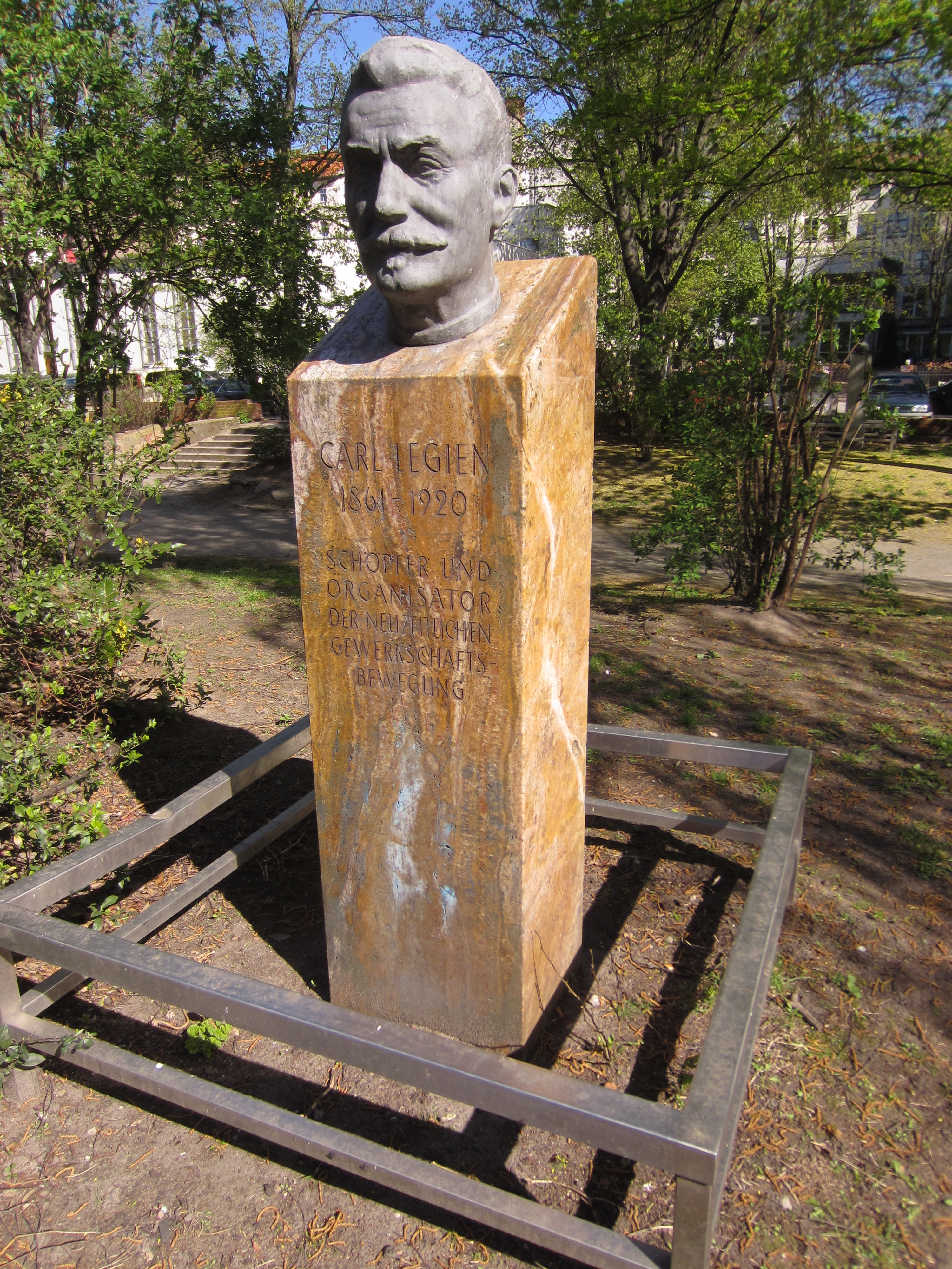 Berlin, Germany (April 2016)